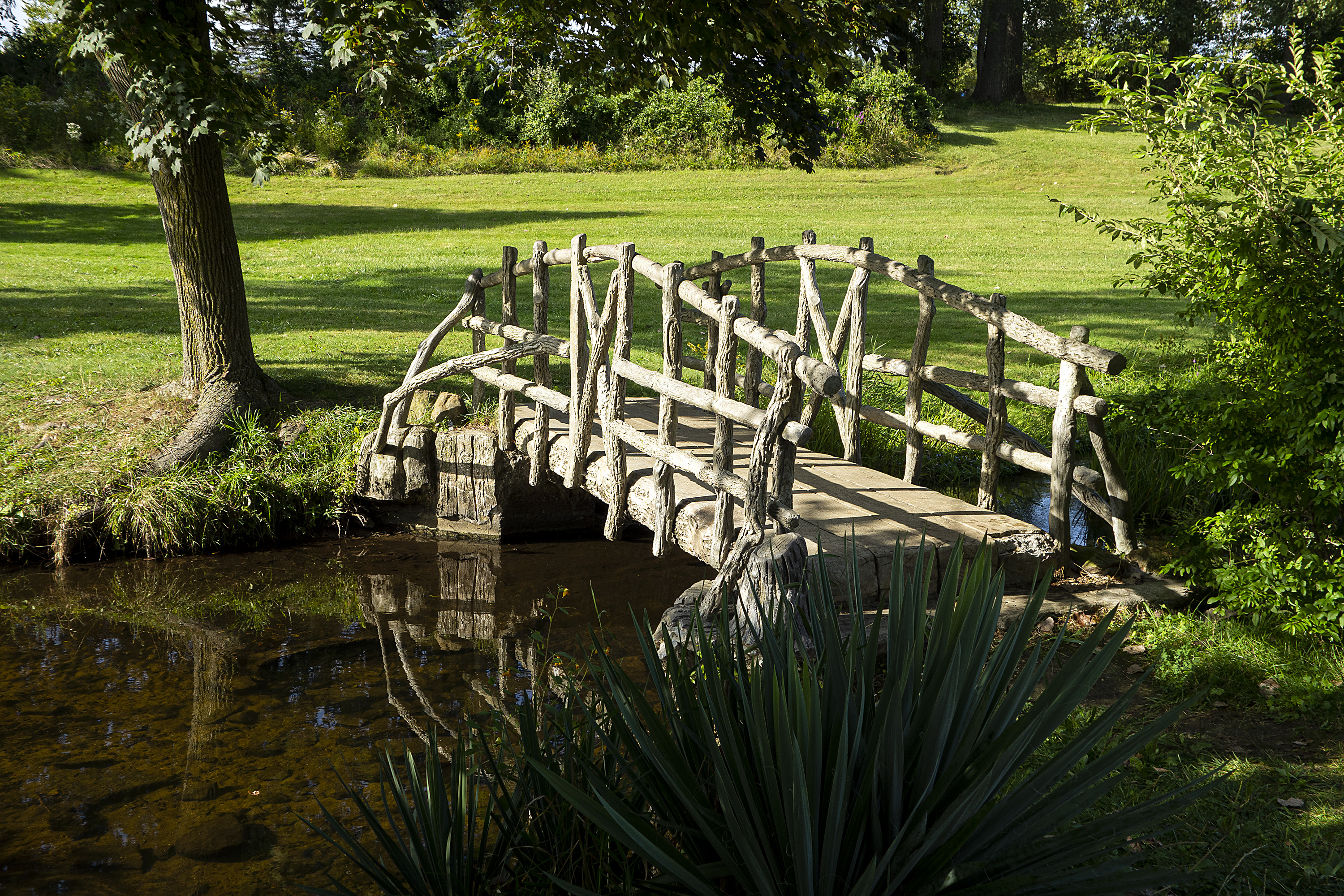 One of the bridges at The W. H. L. McCourtie Estate, now McCourtie Park, in Somerset Center, Michigan. The decorative technique is called el trabejo rustico (known in French as faux bois), the Mexican folk art tradition where wet concrete is sculpted to look like wood.